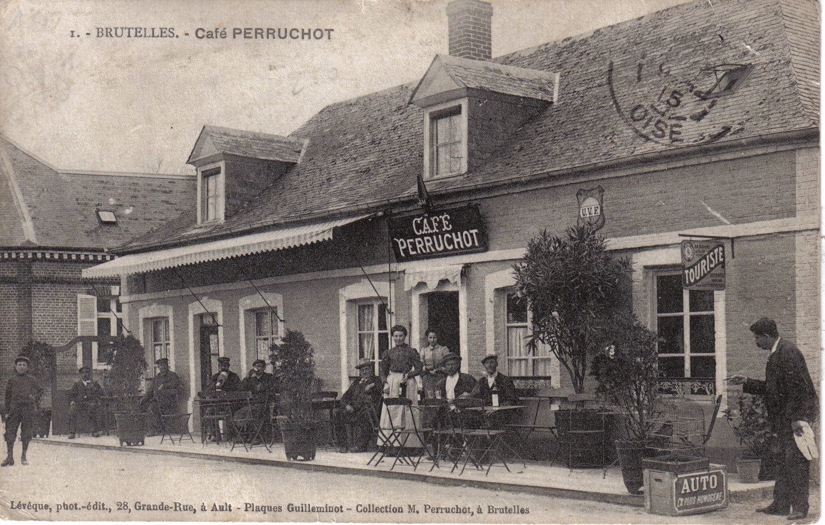 The old café.